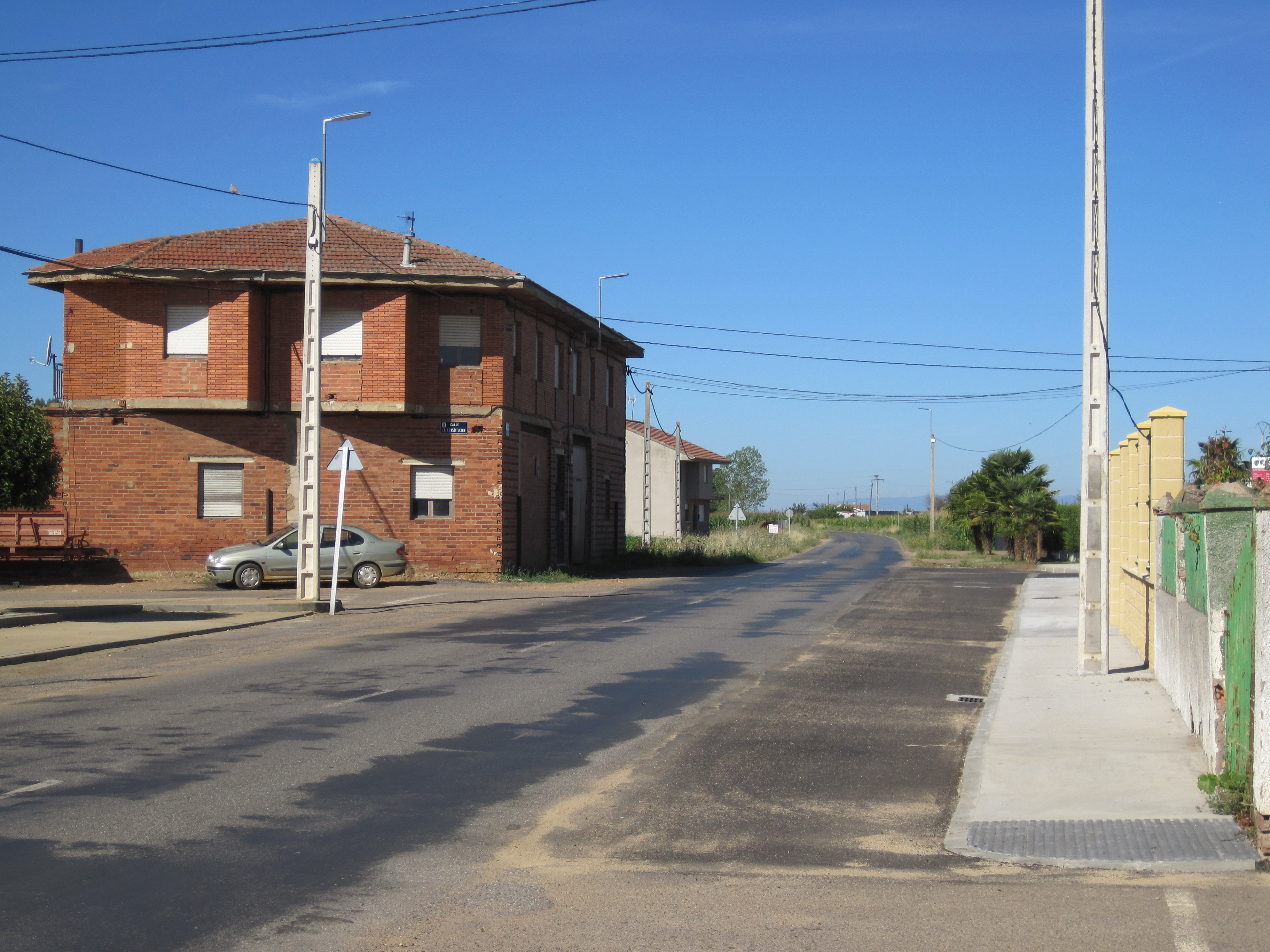 Imagen tomada en Bercianos del Páramo (León).